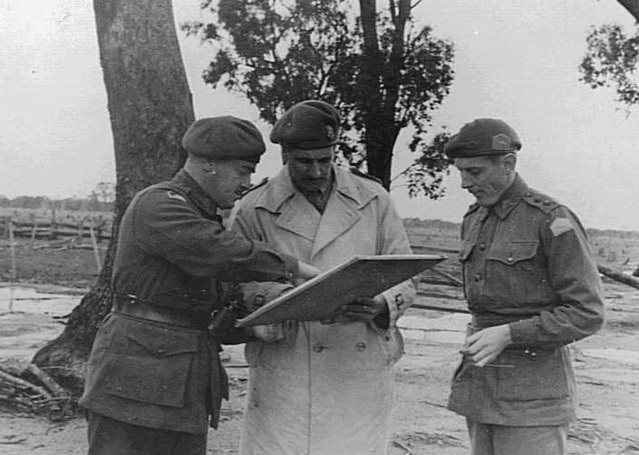 Officers from the Australian 2nd Armoured Division at Puckapunyal, June 1942